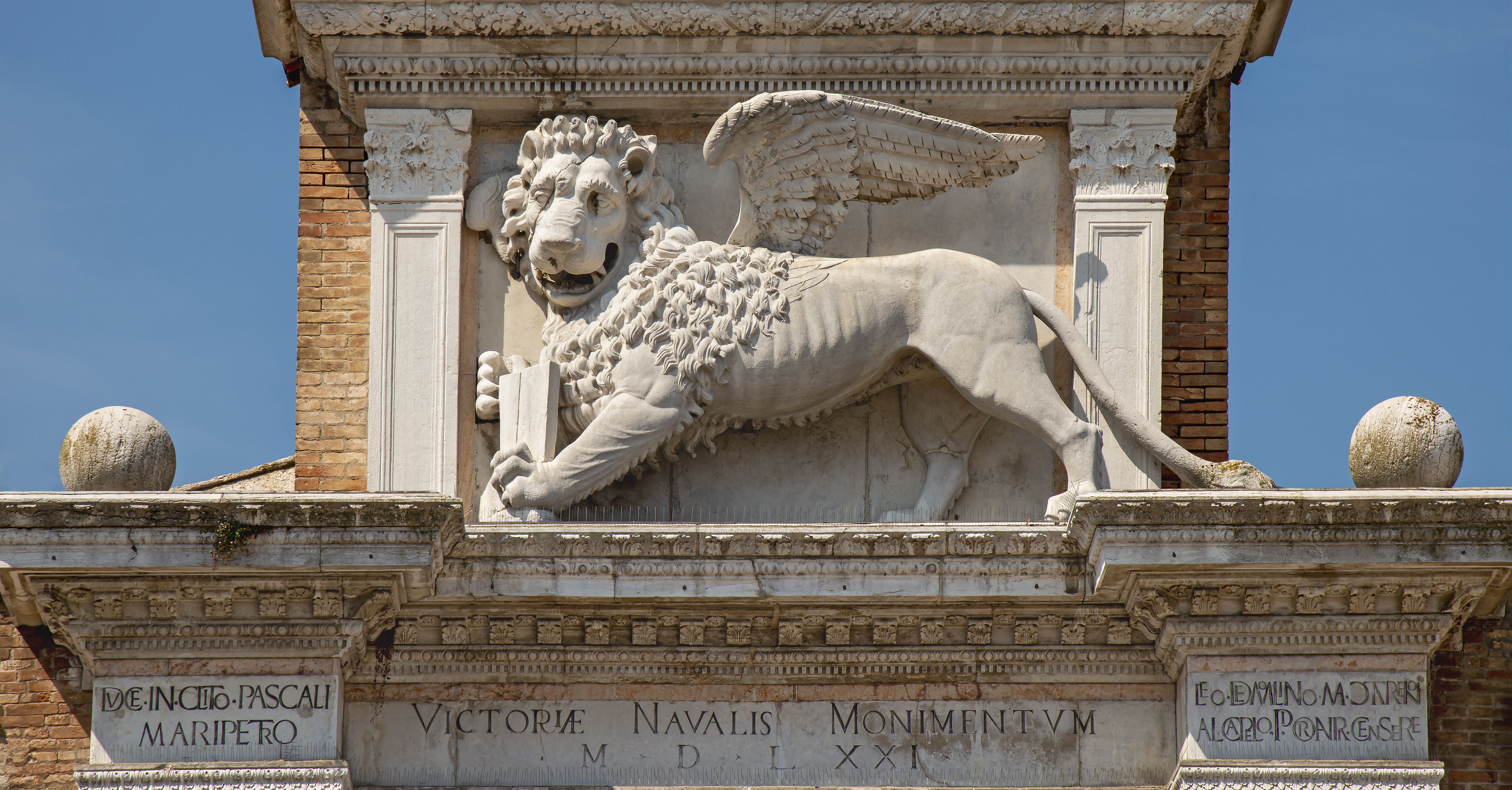 The Lion of Venice on the pediment of the arsenal